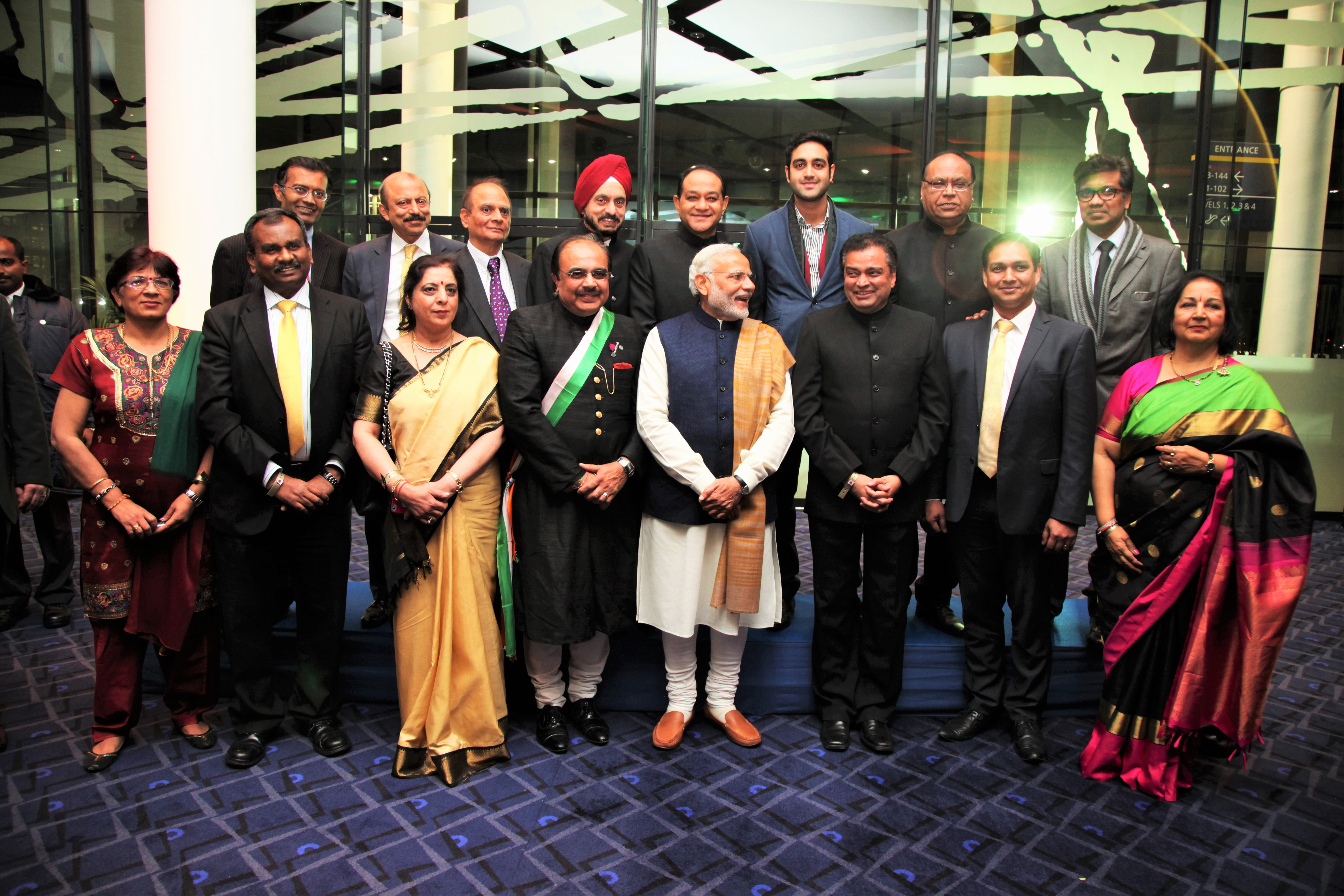 Modi